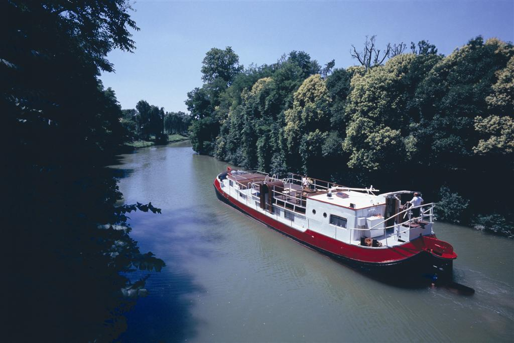 La Dolce Vita cruising.